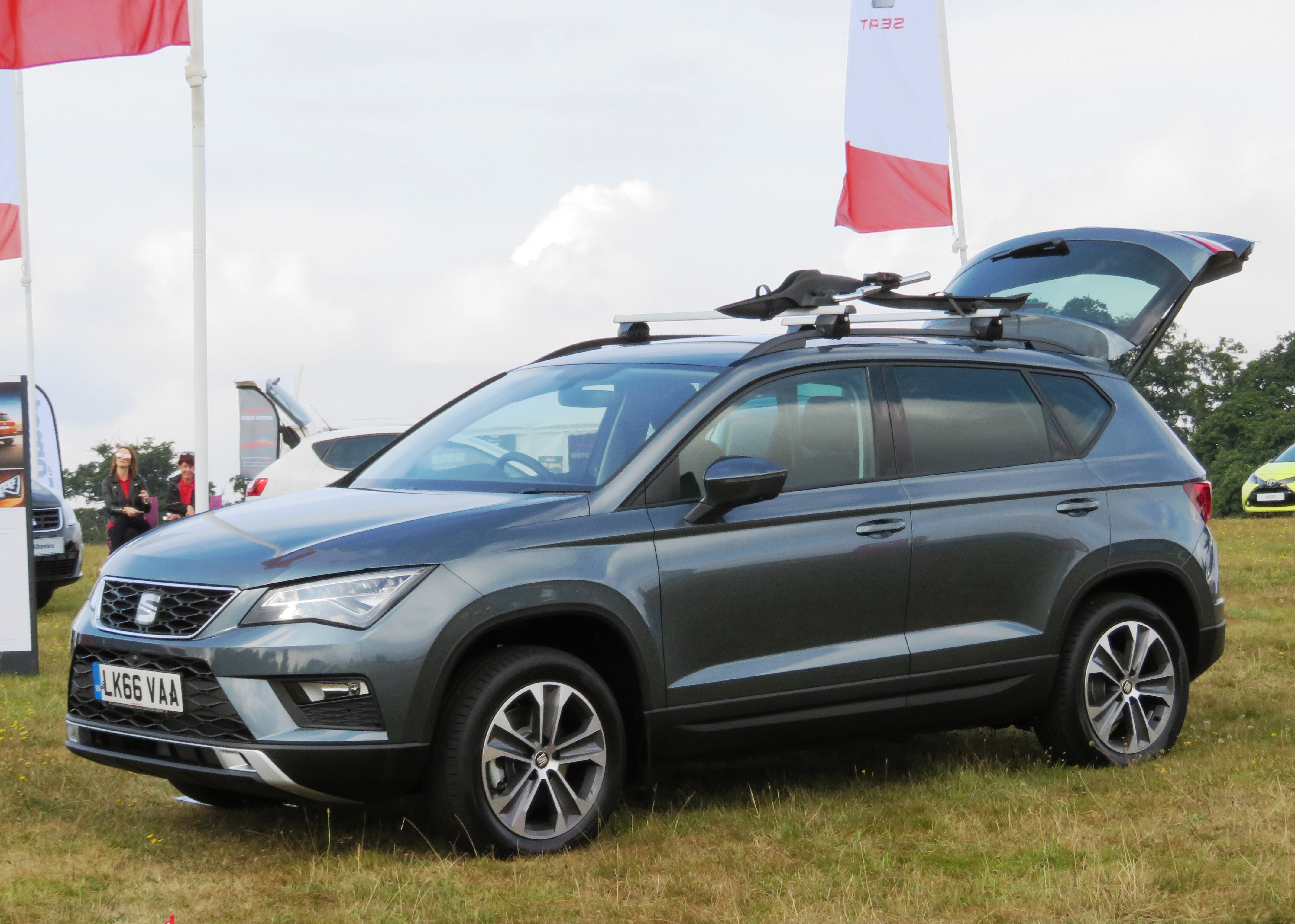 Seat Ateca preregistered in Hertfordshire